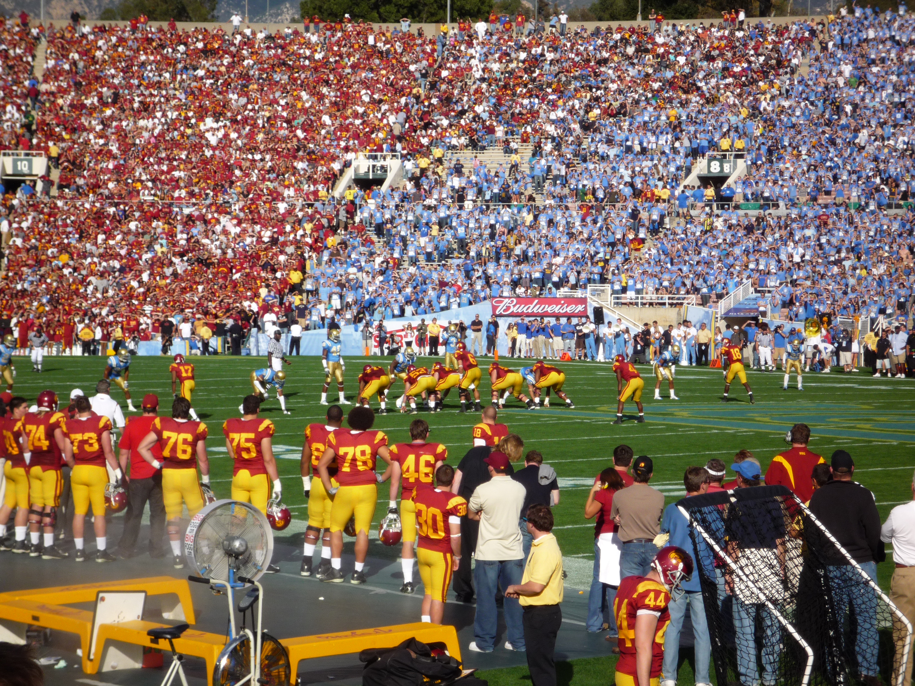 The 2008 UCLA-USC rivalry game: 2008 marked a return to the tradition of both teams wearing home jerseys during the game. Both teams had done so from 1929-1982, but had stopped; coaches Pete Carroll (USC) and Rick Neuheisel agreed to bring back the tradition.